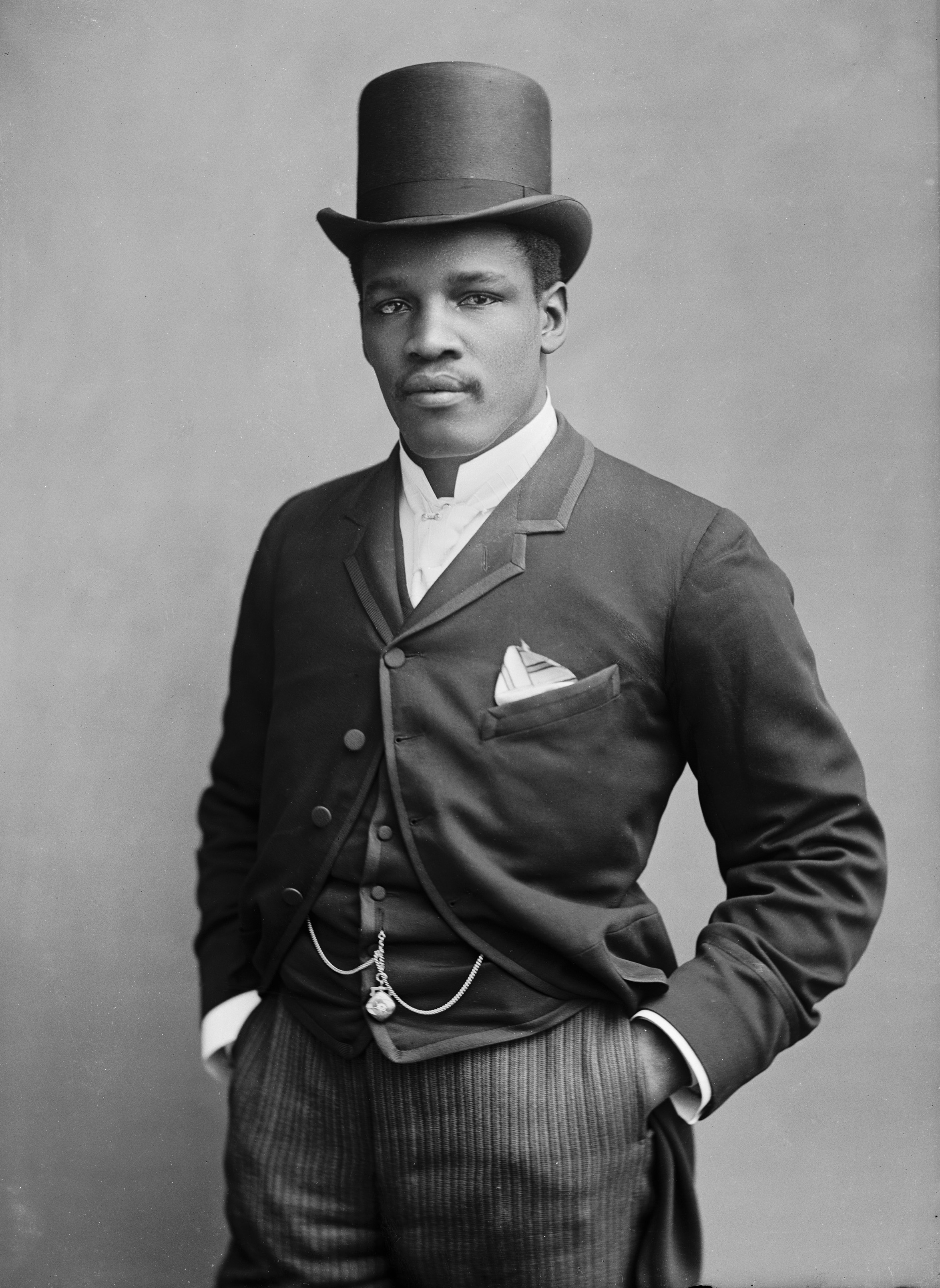 Peter Jackson boxer 1889 London Stereoscopic Company